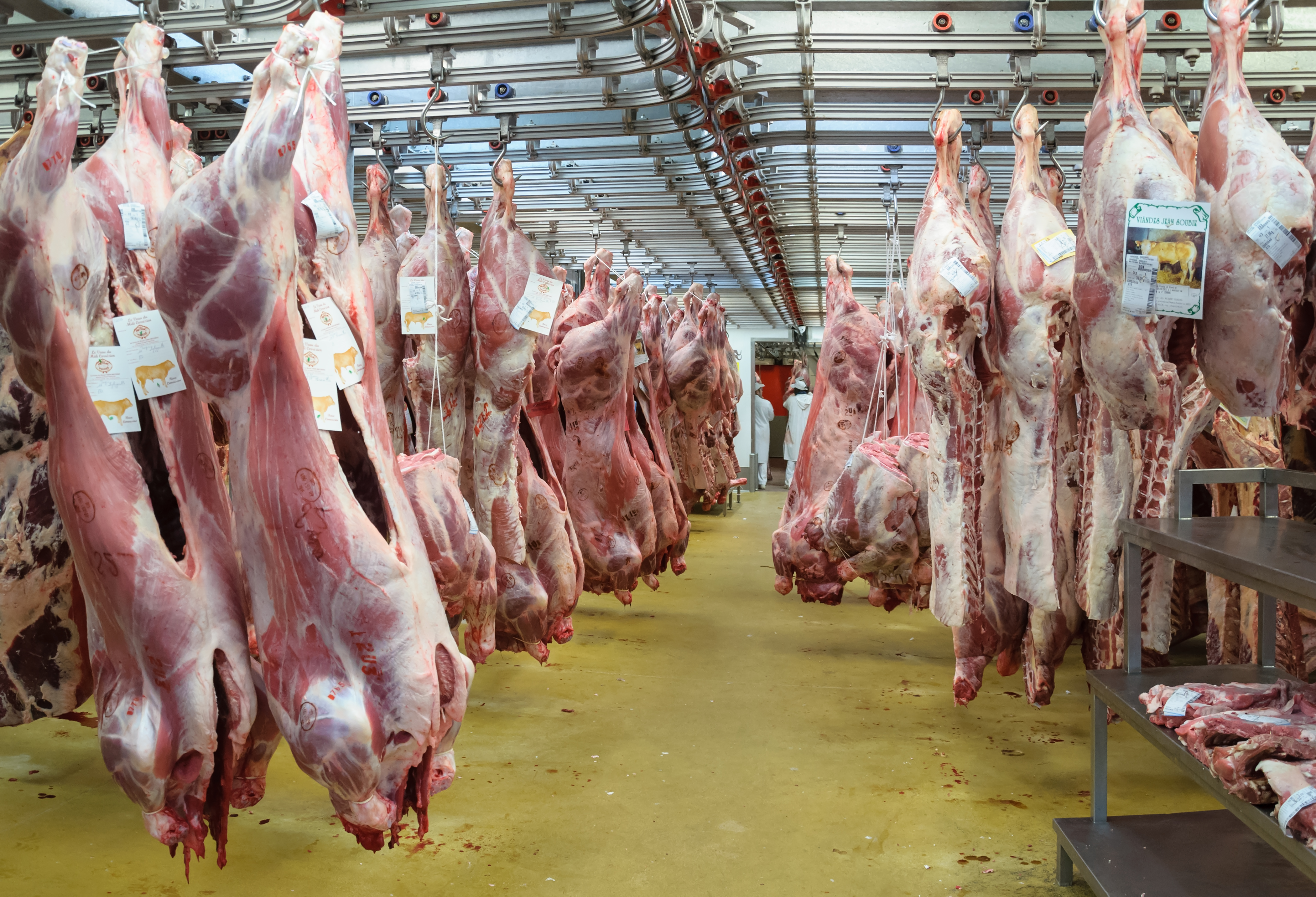 Veal carcasses in the meat products sector of the Rungis International Market, France.